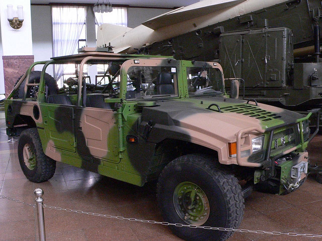 Dongfeng EQ2050 in the Military Museum of the Chinese People's Revolution.